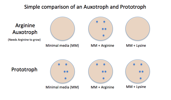 Colonies that are Arginine Auxotrophs are depicted as only being able to grow on media where Arginine is present. Same colonies represented as Prototrophs (being able to grow with minimal media and producing all necessary from the media metabolites)